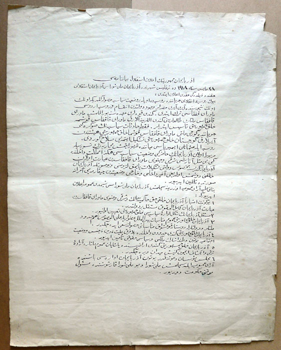 Declaration of independence of Azerbaijan, sighned in 28 May 1912 in Tiflis. In Azerbaijani language with Arabic alphabet.